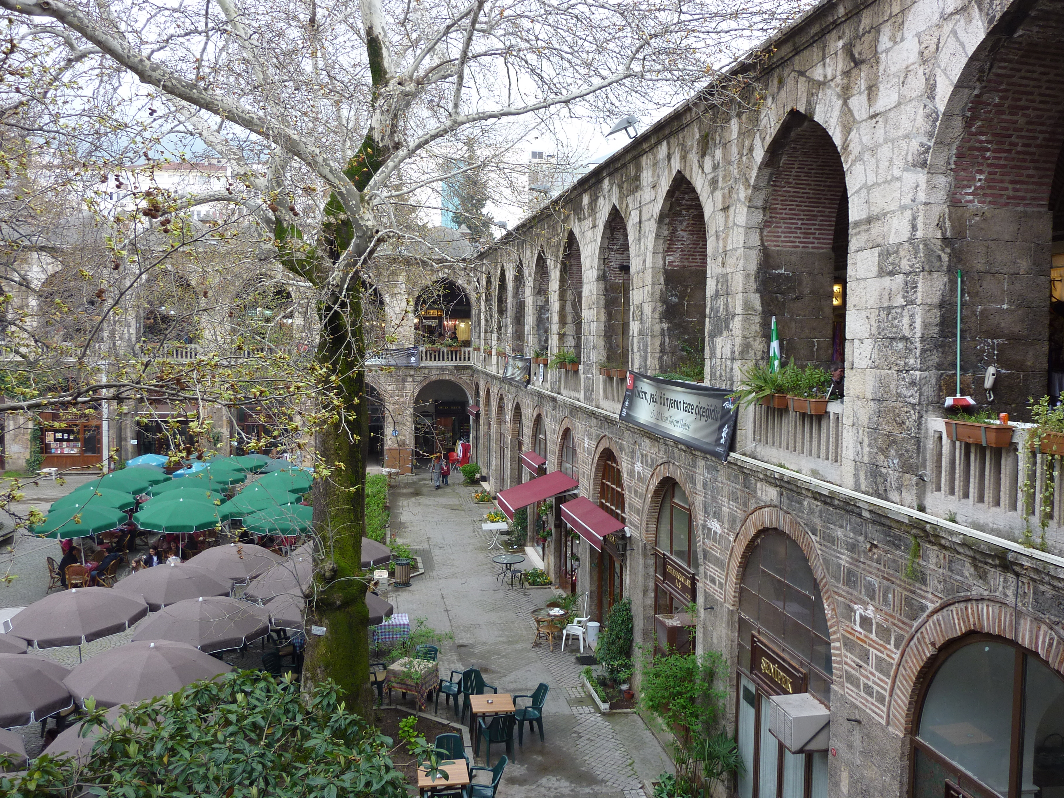 Silk Bazaar of Bursa (Turkey)